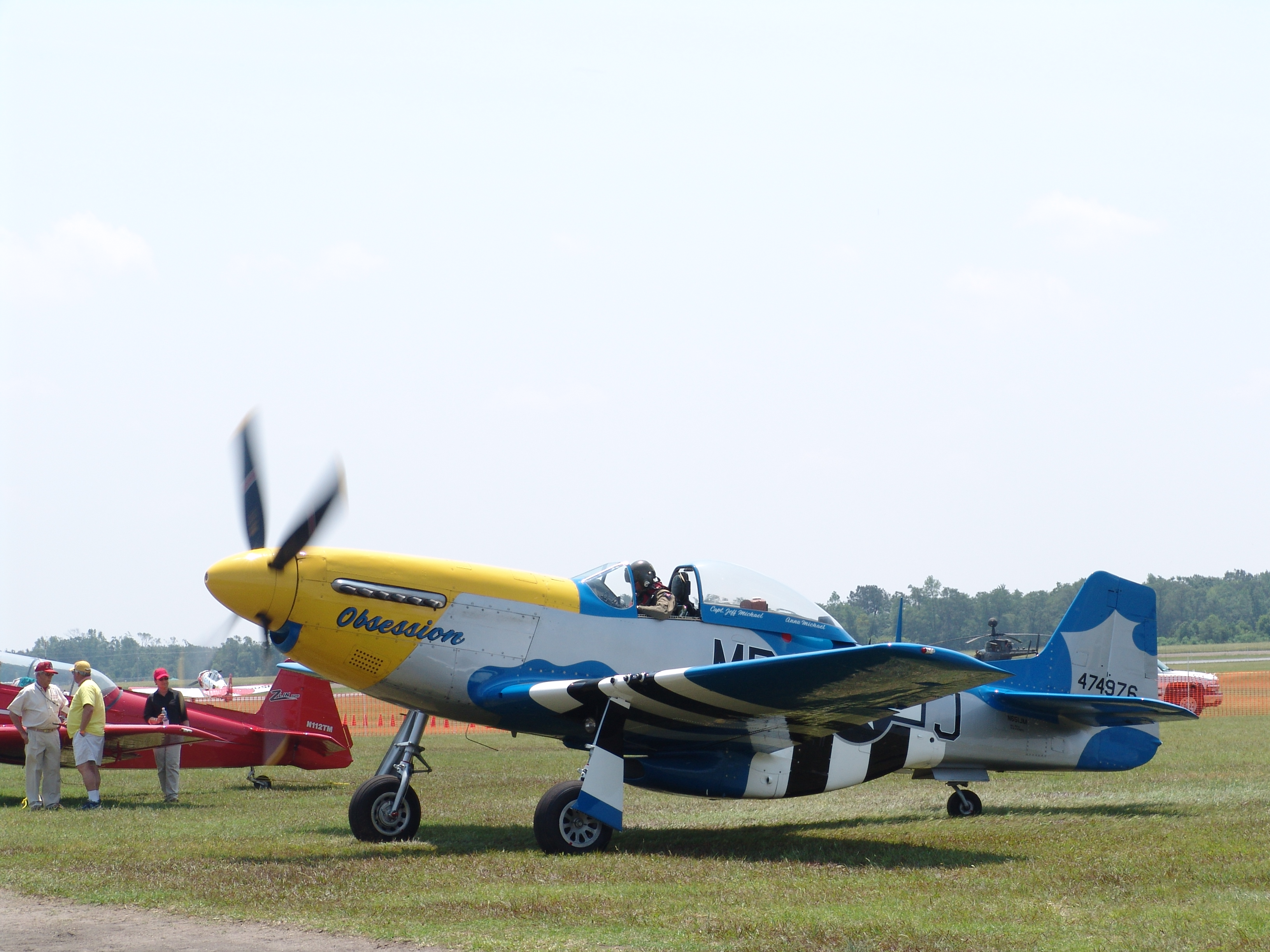 P-51D-30NA Mustang pilot getting ready to take off. I took the picture at the 2005 Lumberton Celebration of Flight.